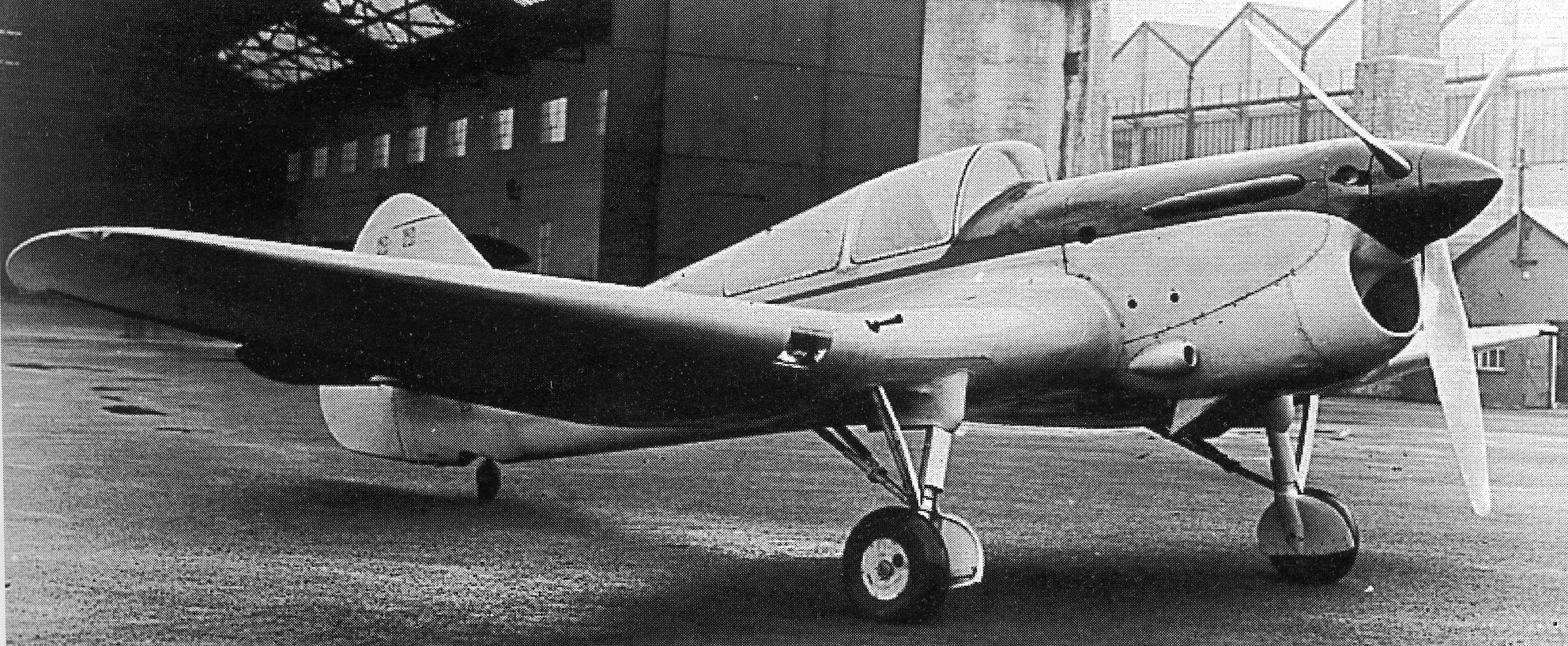 The sole Miles Kestrel U-5, April 1938.